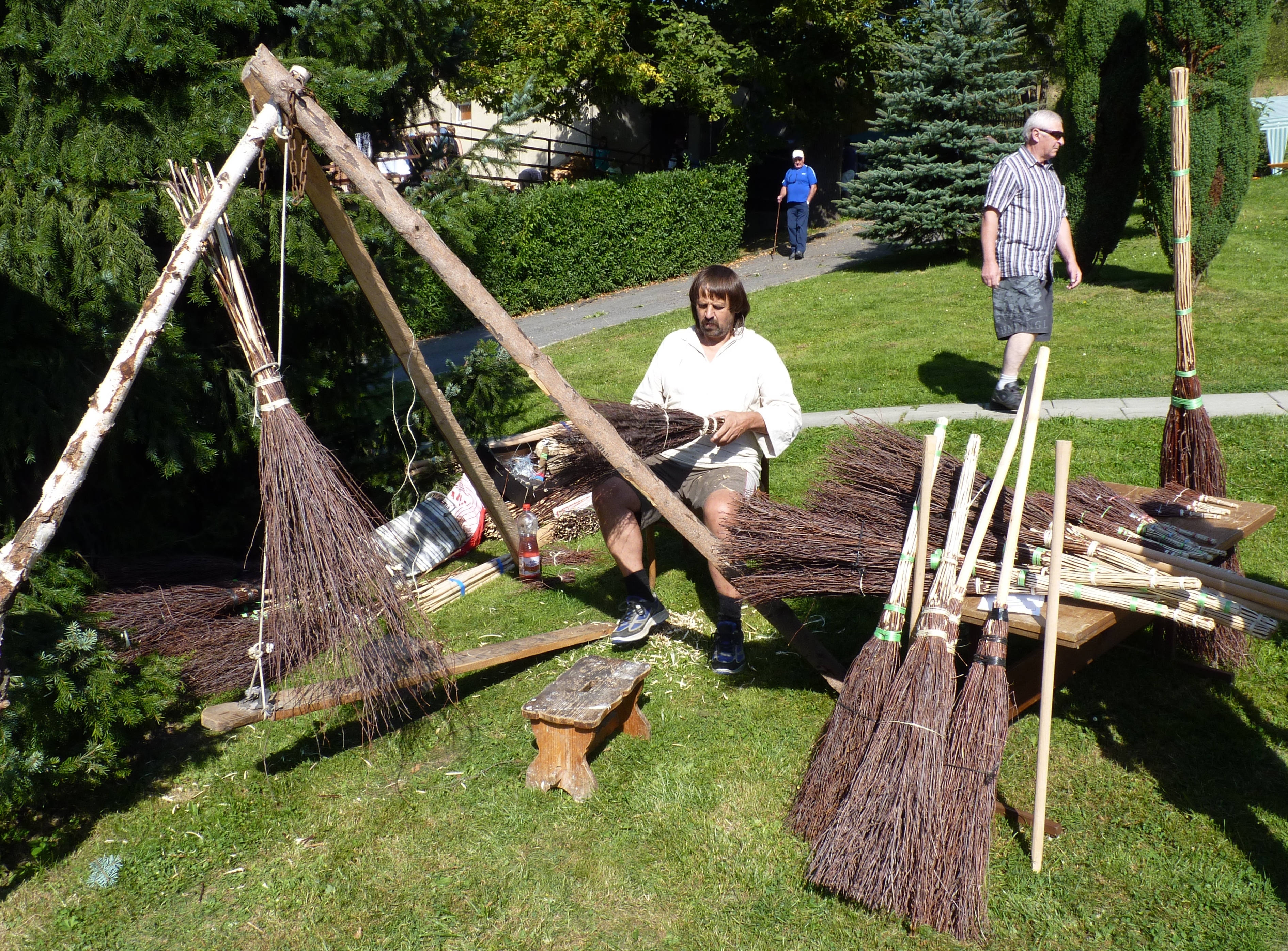 Studeničné, making of brooms. Moravian-Silesian Beskids, Moravian-Silesian Region, Czech Republic